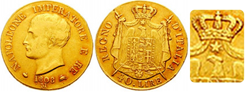 Kingdom of Italy. Napoleon. 1805-1813. AV 40 Lire (12.84 gm). Milan mint. Dated 1808M. it is elaboration of file 40 lire 1808.jpg with added a close up of the Italian star